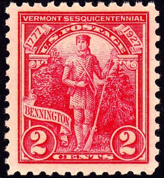 US Postage Stamp, Bennington_Vermont-2c.jpg